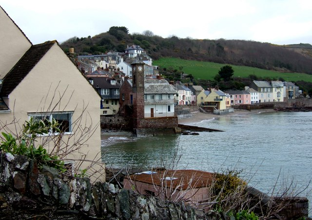 Kingsand from Cawsand The clock tower in Kingsand taken from Garrett Street in Cawsand. The Devon/Cornwall border used to run through this double village such that Kingsand was in Devon while Cawsand was in Cornwall. Nowadays both are firmly in Cornwall.